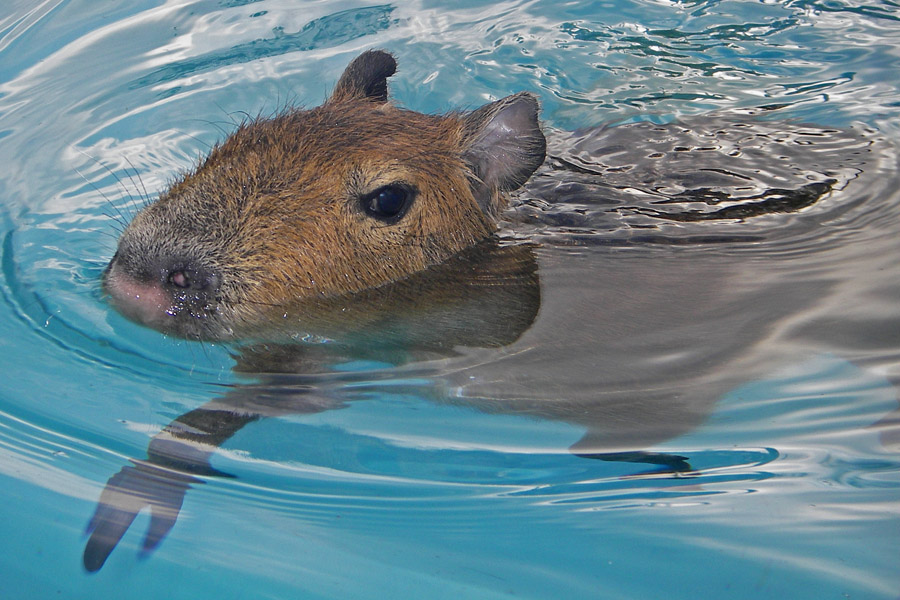 Caplin Rous, a 4.5 month old pet capybara, swimming in a pool. Caplin is also able to swim (much faster) underwater. (Capybara or Lesser capybara)